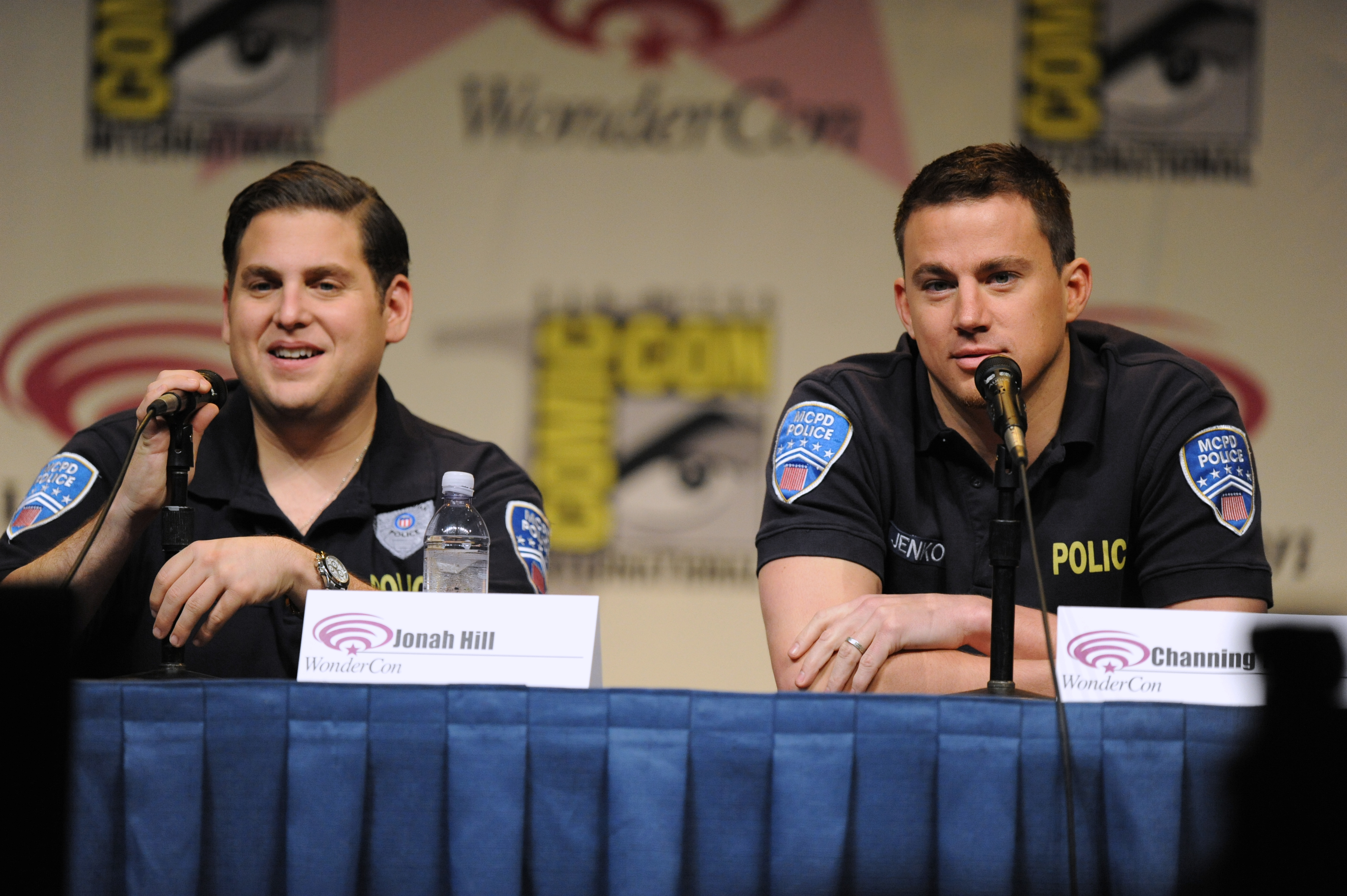 Jonah Hill and Channing Tatum in their 21 Jump Street costumes at WonderCon 2012 in Anaheim, CA.